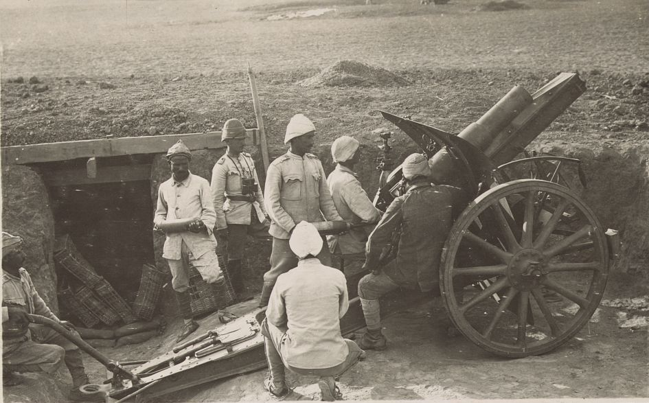 Turkish heavy howitzer and crew at Harcira, 1917